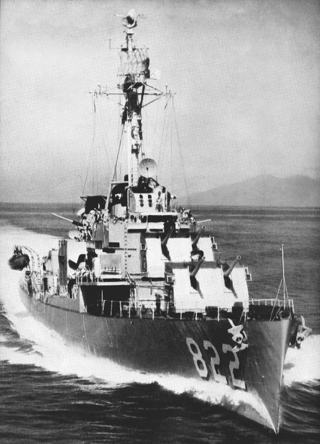 The U.S. Navy destroyer USS Robert H. McCard (DD-822) underway.